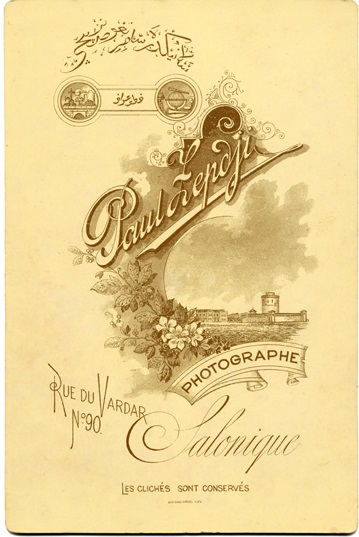 Paul Zepdji Double Bust Portrait of Greek Couple ca. 1890 Thessaloniki